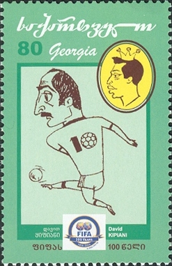 Stamps of Georgia, 2004